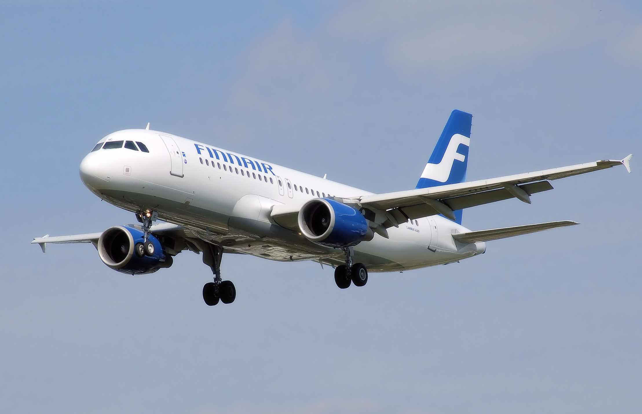 Finnair Airbus A320 landing at London Heathrow Airport.